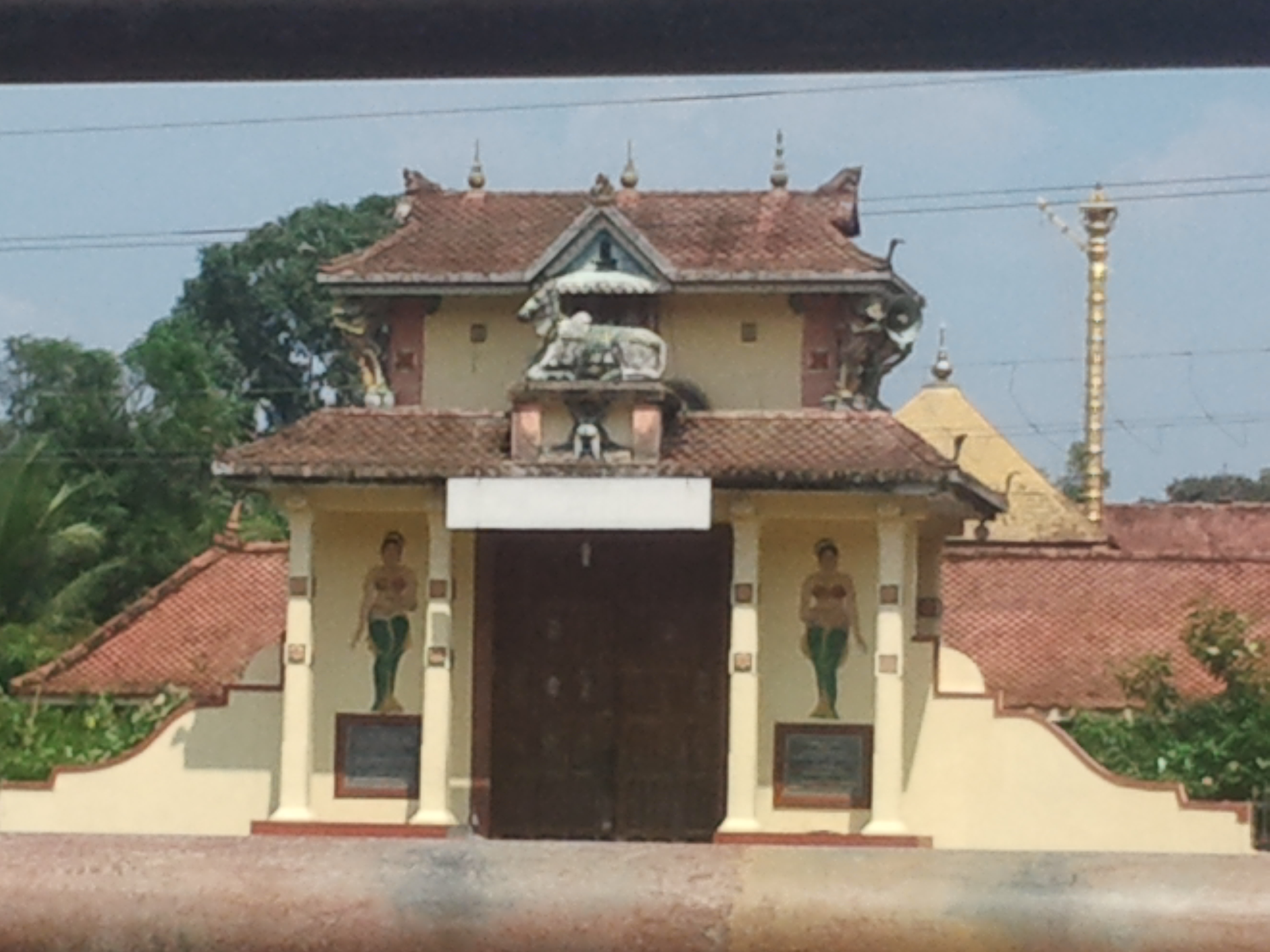 Chirakkadavu Temple, Kottayam District